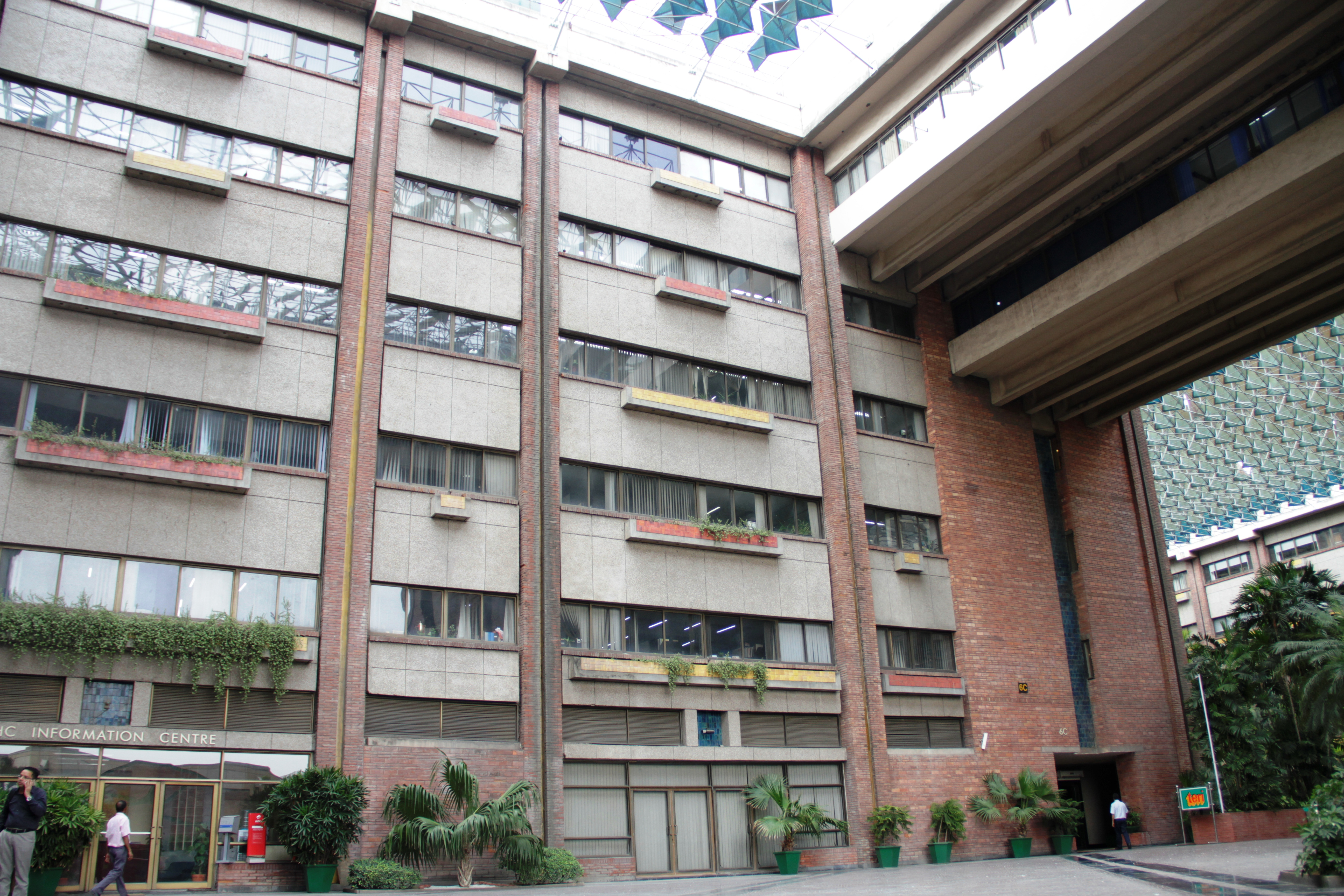 The headquarters of The Energy and Resources Institute at India Habitat Center, New Delhi.